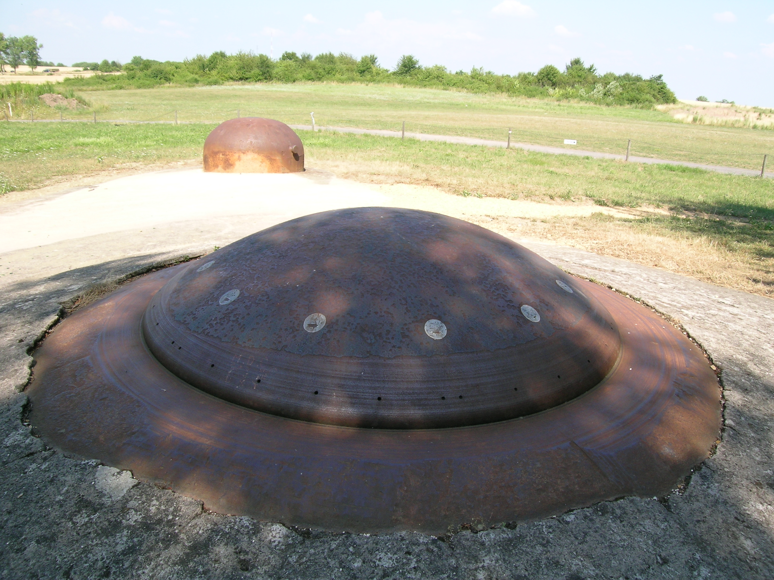 Machinegun turret, bloc 1, ouvrage Bambesch, Maginot Line, France